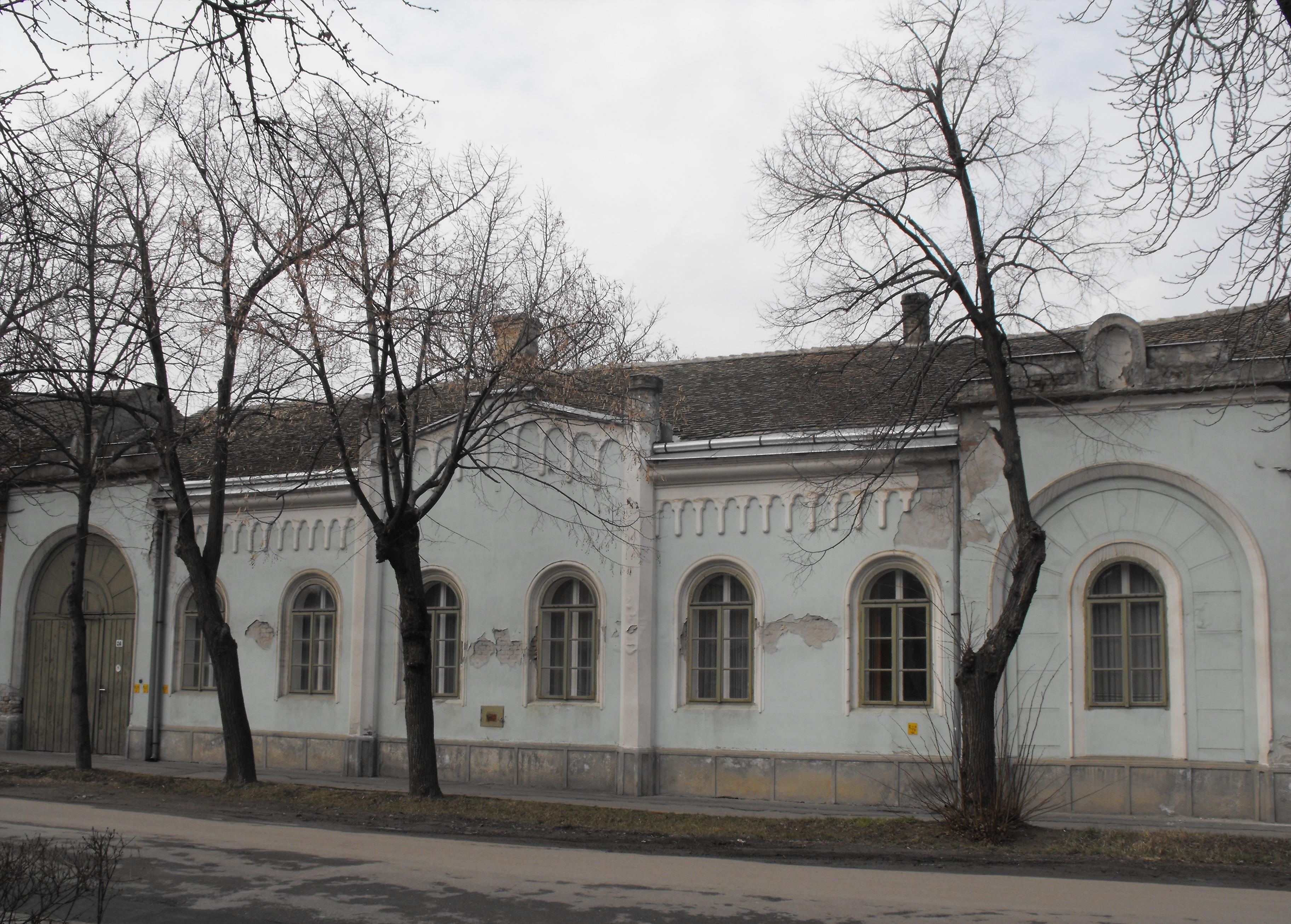 The Juhász/Bán house, built in the 1860s, art relic of Makó, Hungary.